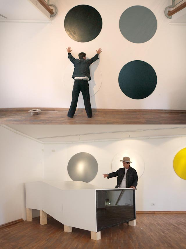 Orlando Mohorovic Rabac